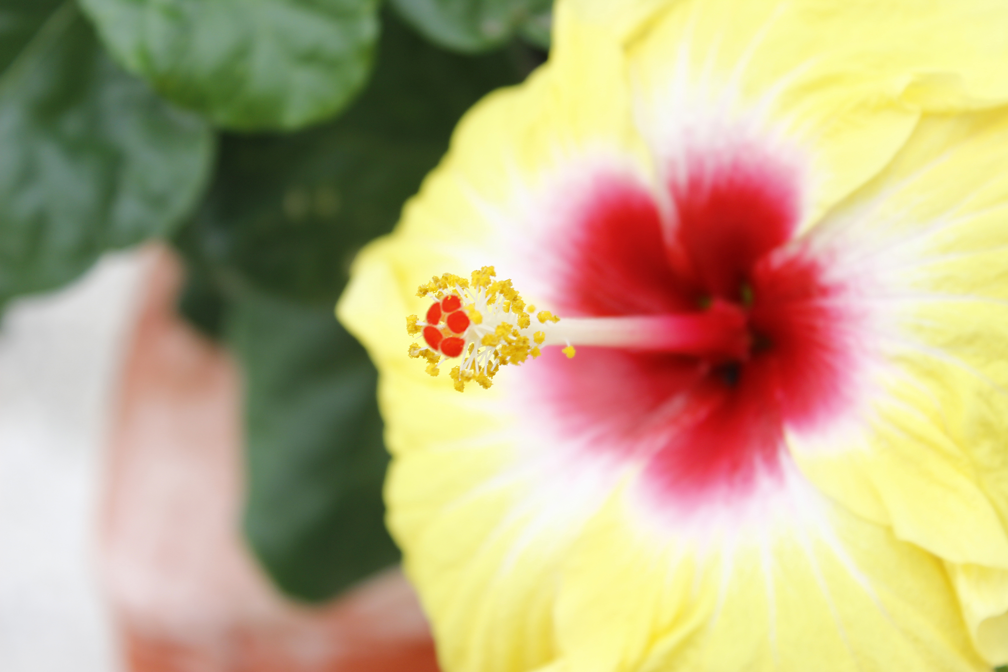 Yellow Red Hibiscus